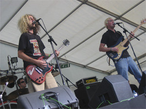 Pickled Dick live at Butserfest 2007